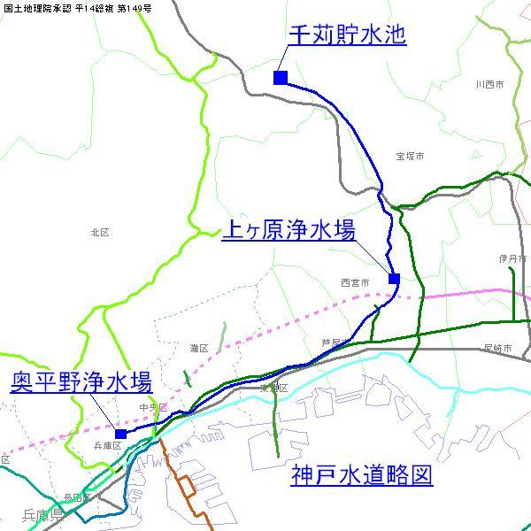 Map of Kobe Suido (Kobe Aqueduct)